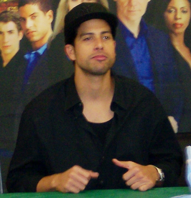 Adam Rodriguez, an American actor. Photograph taken at a meet and greet at a Wal-Mart in Hamilton, Ontario, Canada to promote the CSI Miami board game.